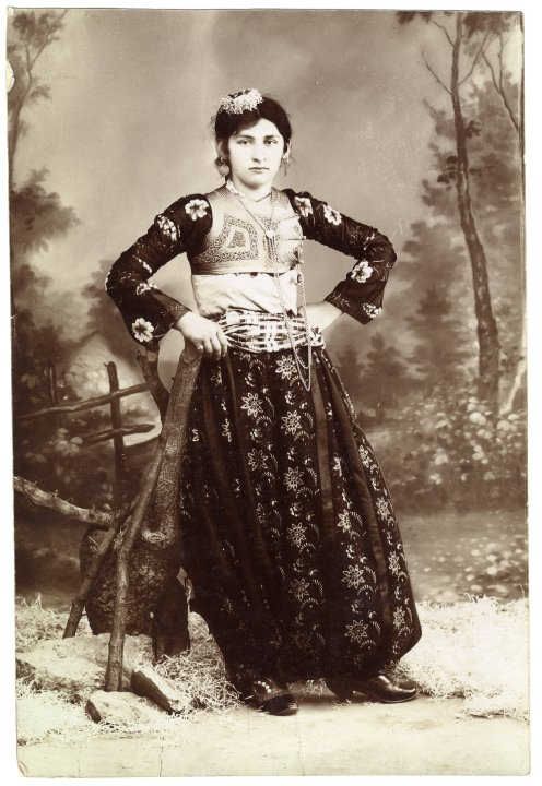 Albanian Woman's Portrait, mm 100x150.